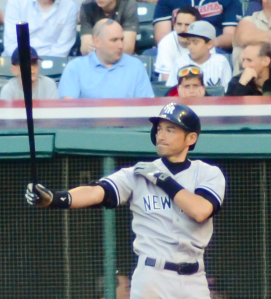 Cleveland Indians vs. New York Yankees